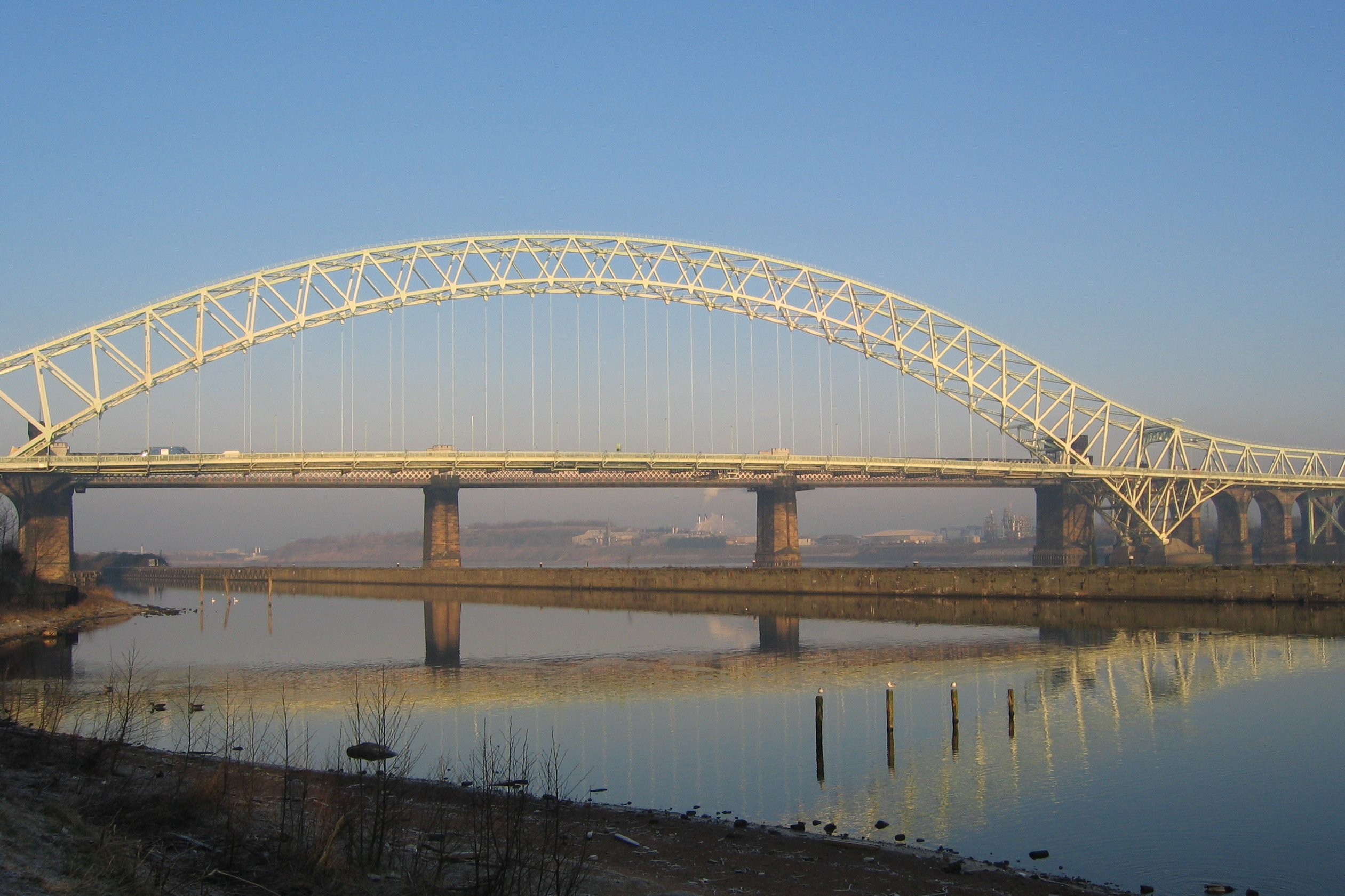 Runcorn Road (Silver Jubilee) Bridge. This photograph was taken by me on a frosty morning in February 2004 from Mersey Road, Runcorn. In the foreground is the Manchester Ship Canal and over the canal wall is the River Mersey. Beyond the road bridge can be seen the railway bridge and in the distance are factories in Widnes.